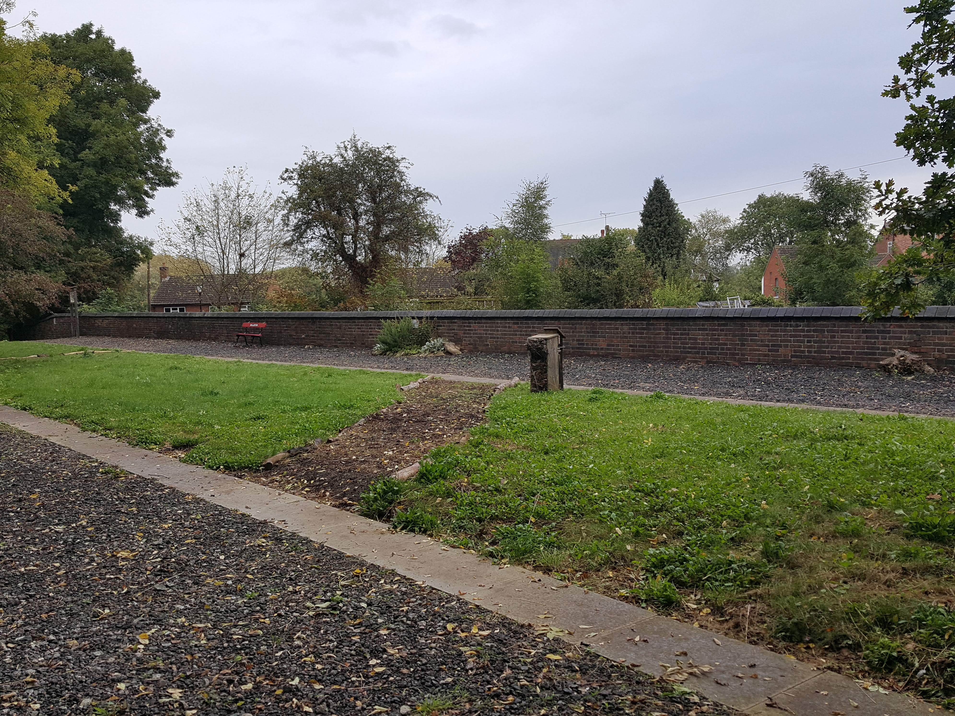 The restored platform of Rolleston on Dove railway station in Staffordshire.